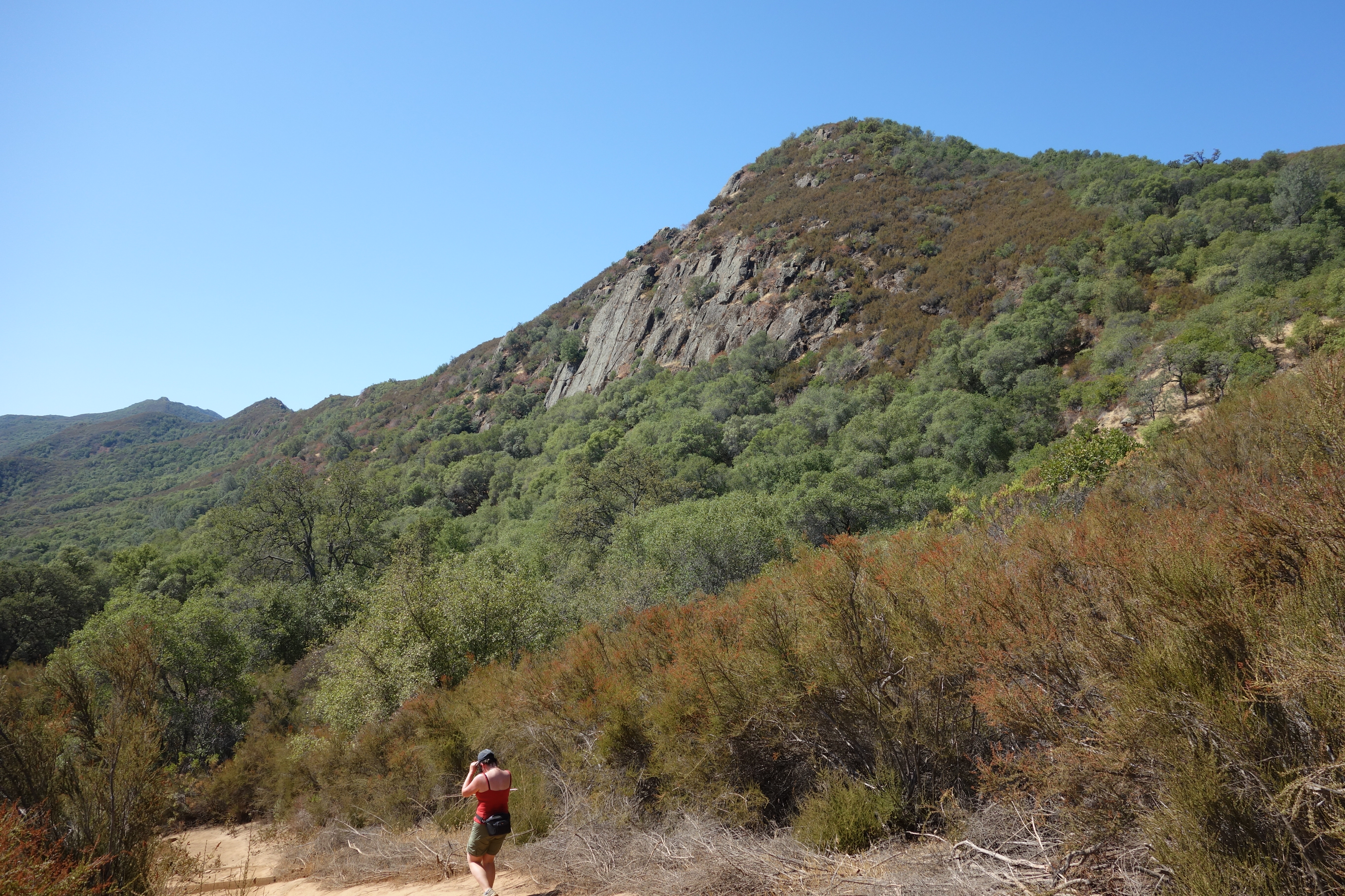 California chaparral habitat in Stebbins Cold Canyon Reserve, Solano County, California. It is within the Blue Ridge Berryessa Natural Area.